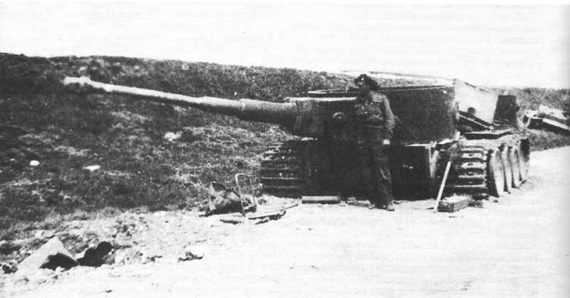 Knocked out Tiger tank at Hunt's Gap, Tunisia